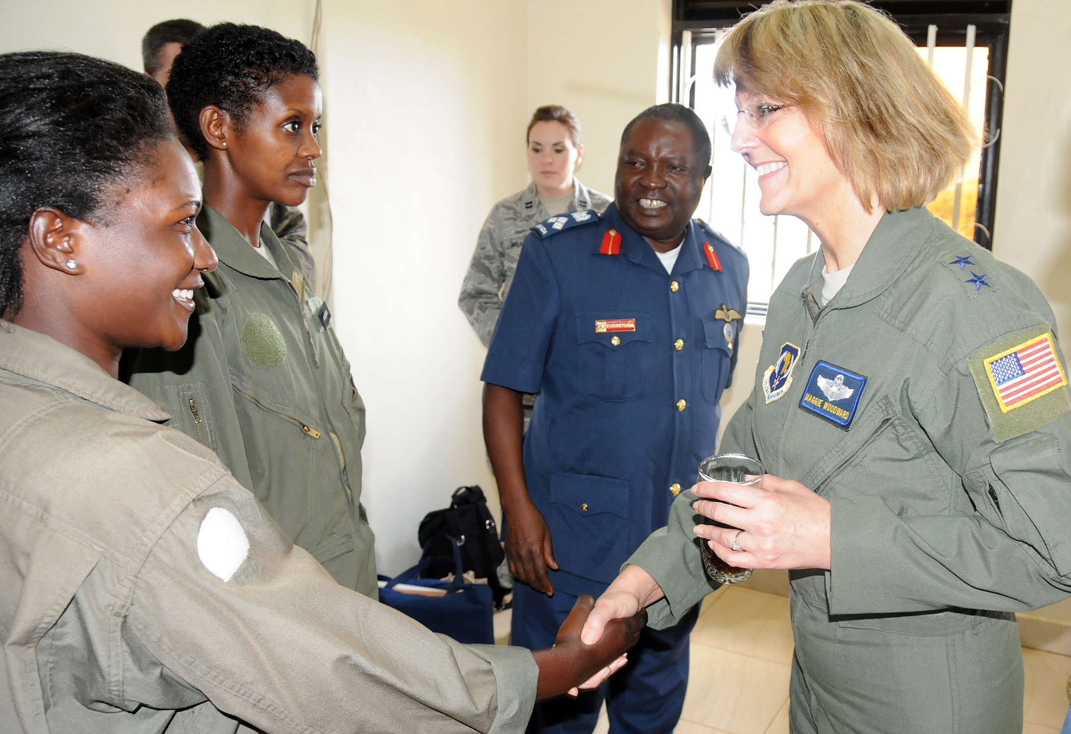 Air Forces Africa Commander Maj. Gen. Margaret Woodward (left) meets Ugandan Peoples Defence Air Force pilots Pilot Cadet Carolyne Nanyema (right) and Lieutenant Naomi Karungi (right center) while UPDAF Deputy Commander Brig. Gen. Samuel Turyagyenda (center) looks on at Entebbe Air Base, Uganda. General Woodward was touring the air base during a Senior Leader Engagement to the partner nation focused on sharing expertise and capacity building. (U.S. Air Force photo by Master Sgt. Jim Fisher)